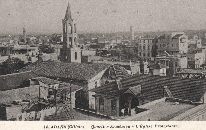 Adana Armenian Protestant Church